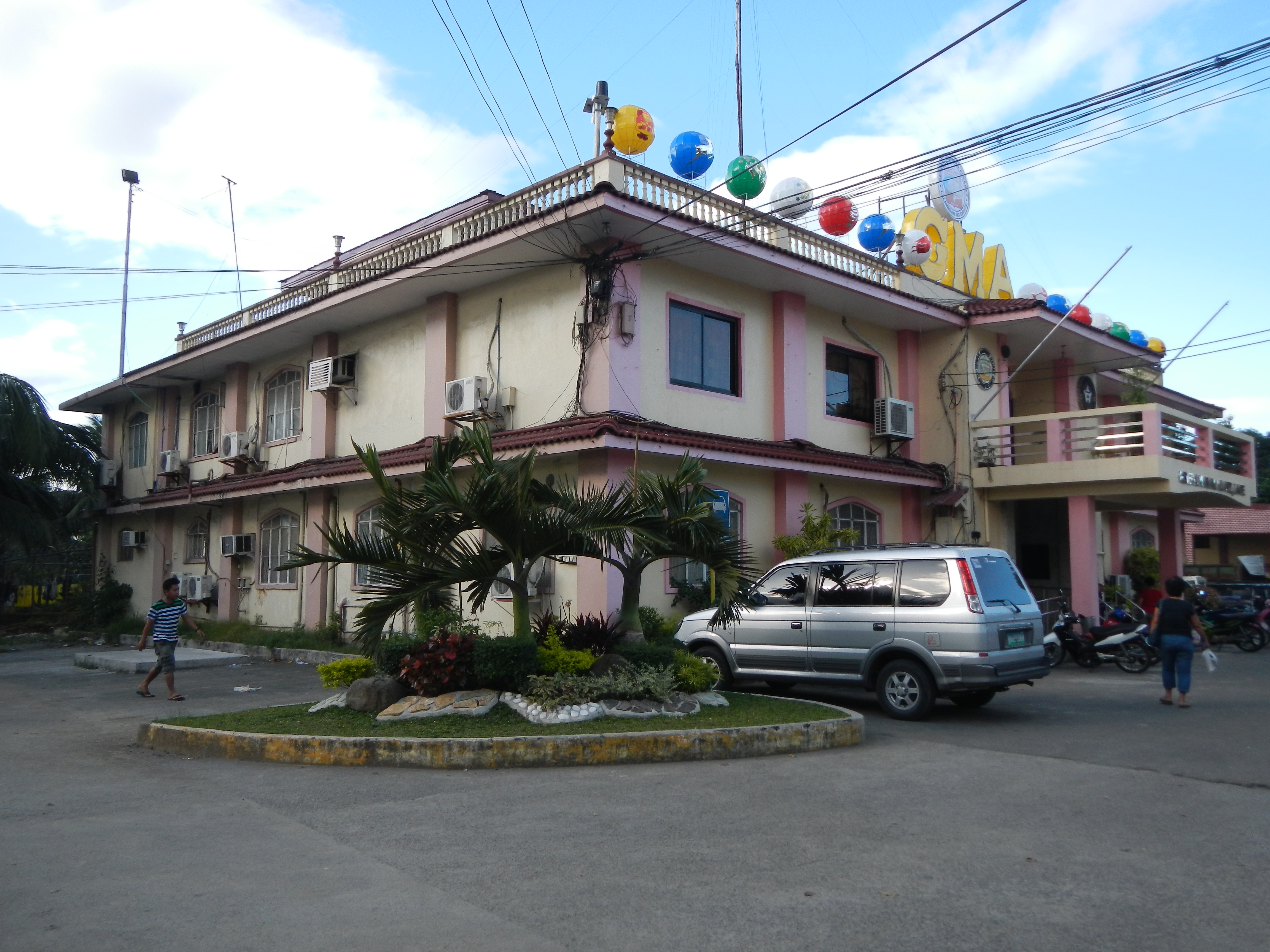 Upload Wizard photos -- (General description, 3-dimension angle by angle photography of this town, church & landmarks) -- General Mariano Alvarez, Cavite Municipal Hall Complex[1] including its Legislative Building and session hall (an urban municipality in the province of Cavite, Philippines; 2010 census, it has a population of 138,540 people in an area of just 11.40 square kilometers, named after General Mariano Álvarez[2], a native of the town of Noveleta, Cavite; with 27 barangays, with its University of Perpetual Help System JONELTA - GMA Campus [3]) - GMA area, that is, Poblacion I and 2, Town Proper, downtown, centro, along the GMA National Road Website, General Mariano Alvarez Town Hall, including at the center thereof, are the Flag and Monument of the town hero, in the Plaza, Park and beside is the GMA Police Station, along the so-called GMA Area, GMA Public Market; (the capture of the Noveleta Tribunal on August 31, 1896 was led by Mariano Alvarez,[4] [5] Santiago V. Alvarez (1872-1930) Hero of the Battle of Dalahican - founder and president of the Sangguniang Bayan Magdiwang [6]).